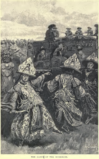 Buryats dancing, 1885